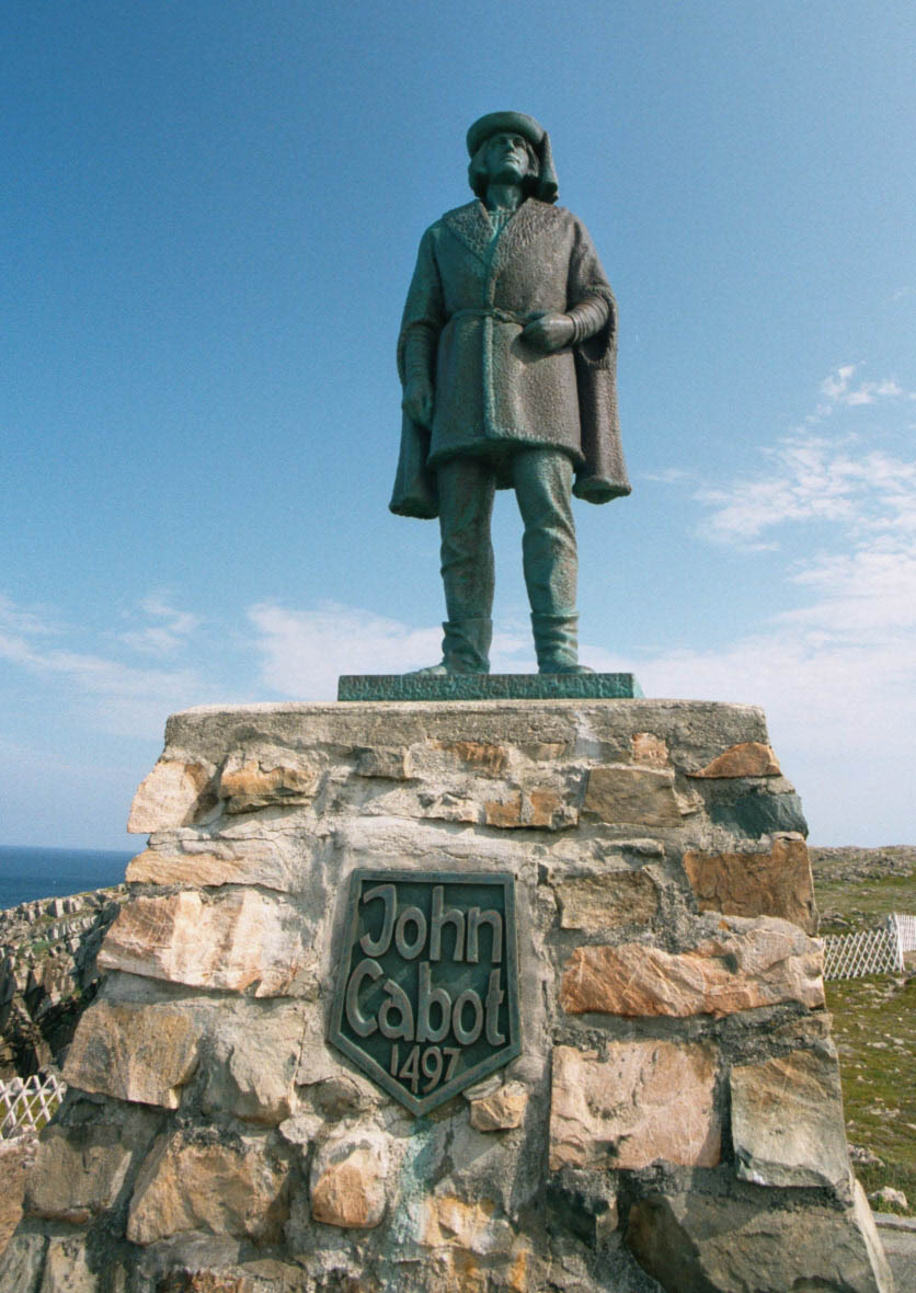 Statue of John Cabot in Bonavista Newfoundland.